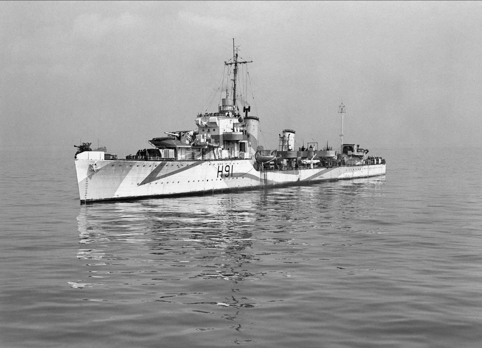 HMS BULLDOG secured to a buoy on the East Coast. Fitted with a bow chaser